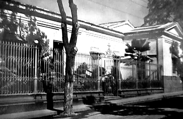 Picture of Lourdes School in Valencia, Carabobo State - Venezuela